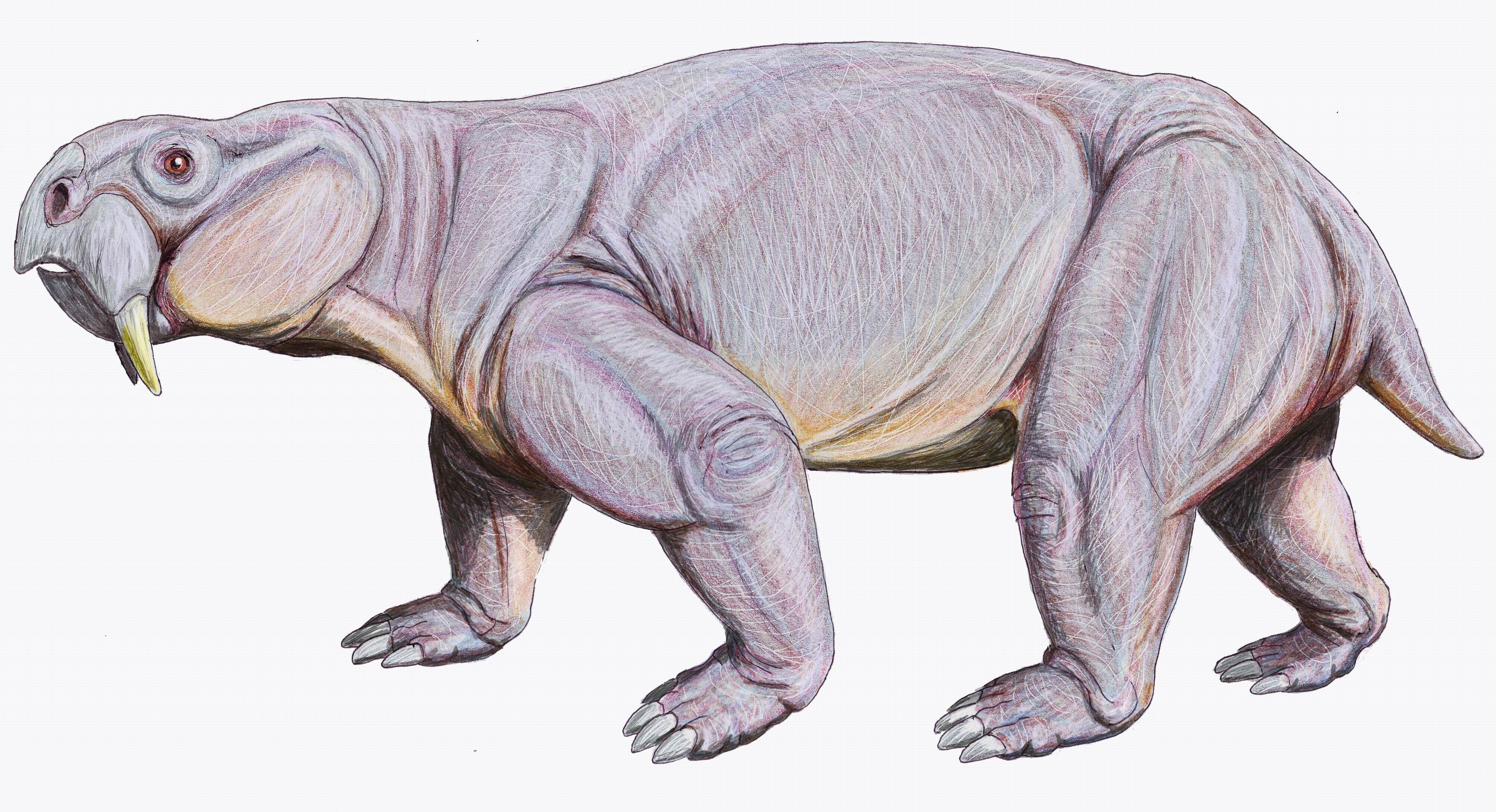 Dinodontosaurus turpior, big dicynodont from Middle Triassic of South America and (probably) Germany.